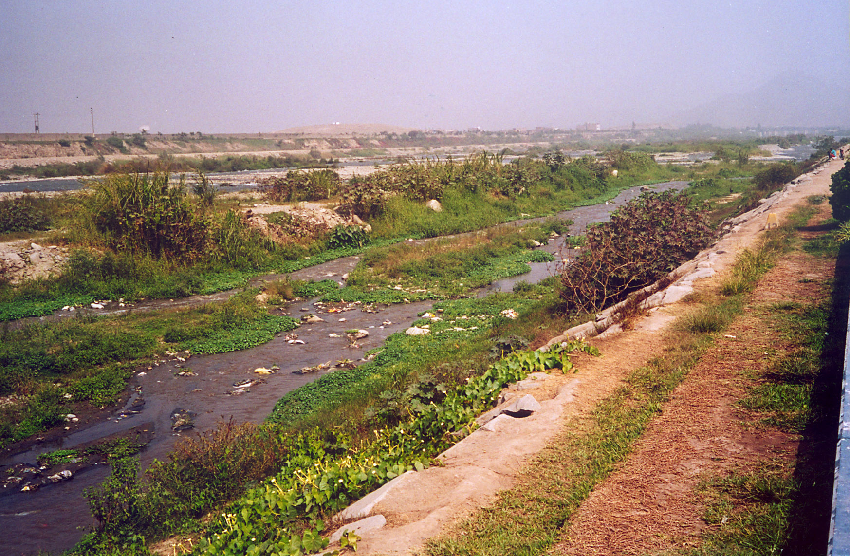 River Rimac, Peru. The river basin, low level of water. River Rimac between Vitarte and Chaclacayo, at the new part of the Panamerican Central Highway. The photo was taken in 2002 by Håkan Svensson (Xauxa).